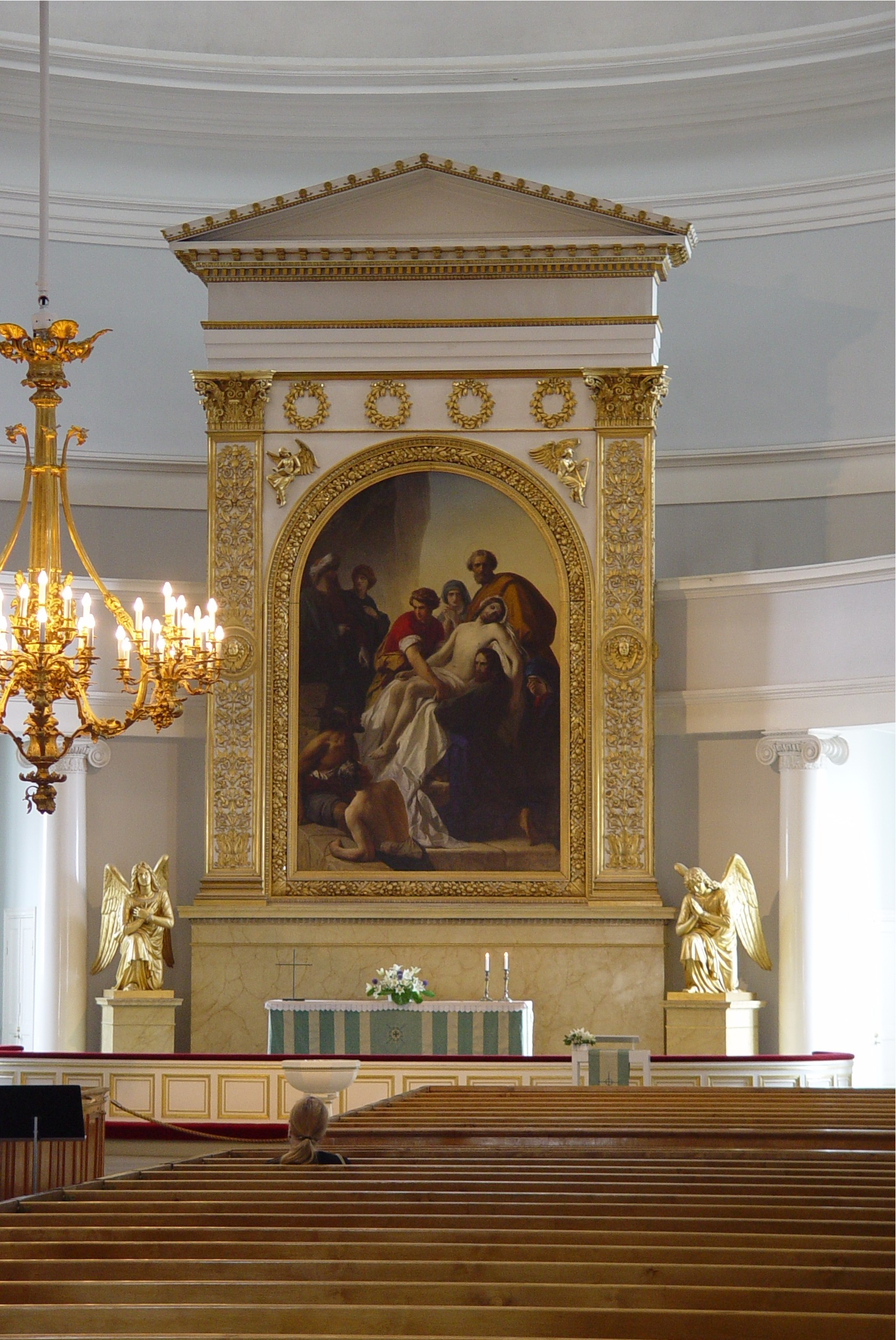 The altar and the altar painting of Helsinki Lutheran Cathedral in Helsinki, Finland.